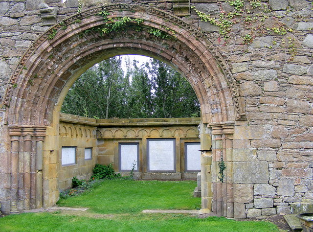 A Norman arch at Kinloss Abbey, Moray, Scotland.The marble slabs through the arch are in memory of the various members of the Dunbar family.